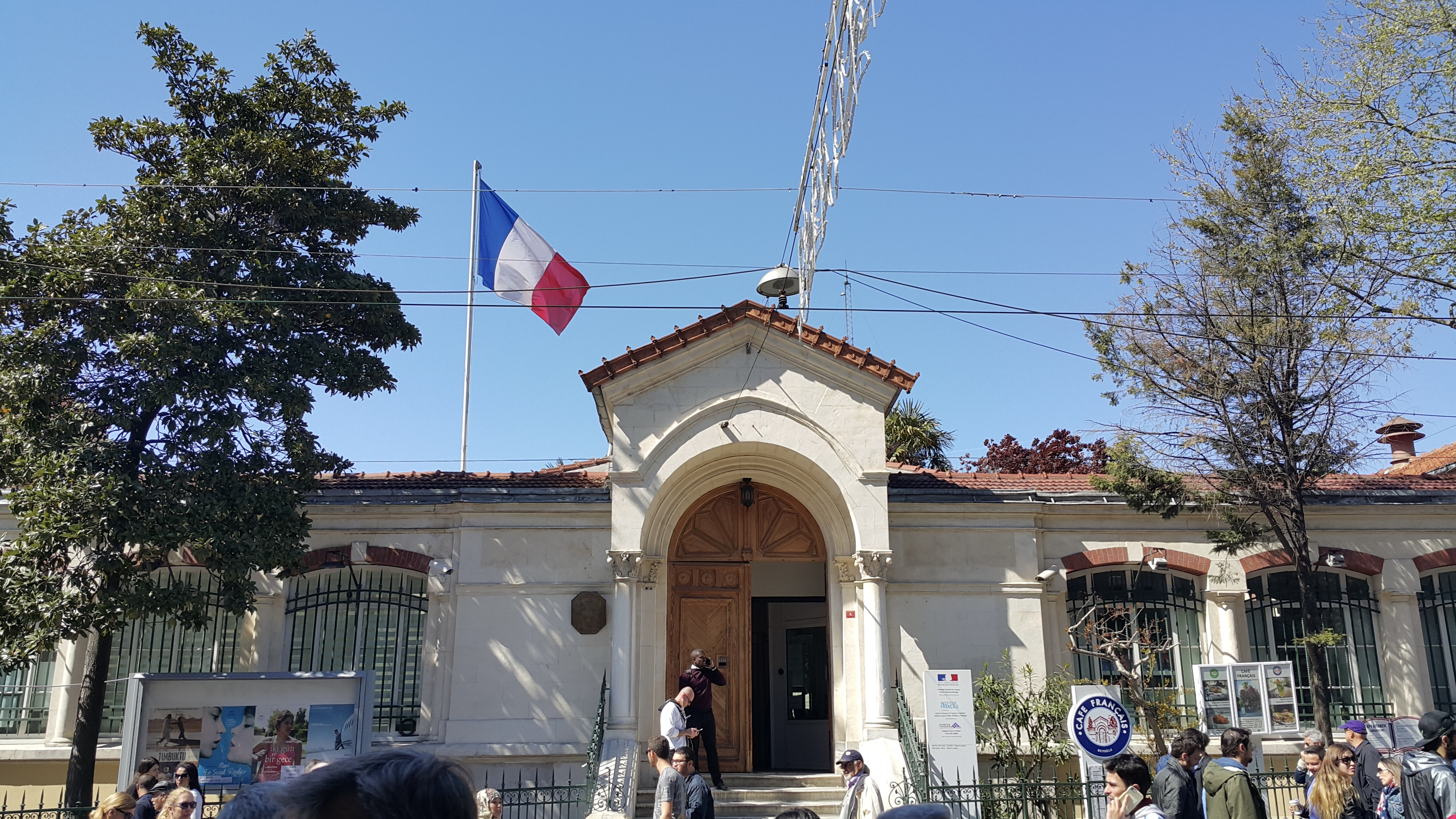 Consulate-General of France in Istiklal Avenue, Istanbul, Turkey.